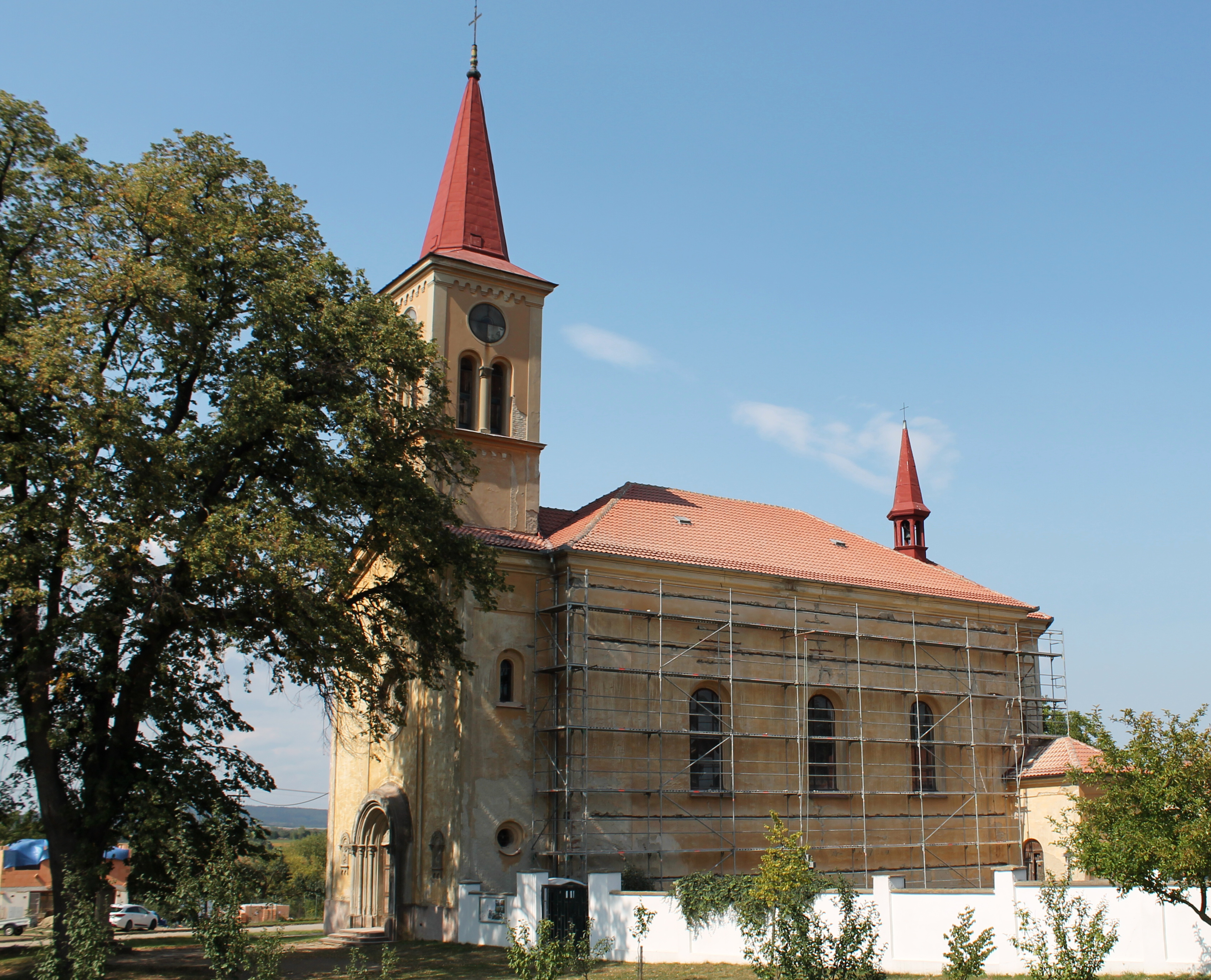 Church of Saints Cyril and Methodius, Rostěnice, Rostěnice-Zvonovice, Vyškov District, Czech Republic